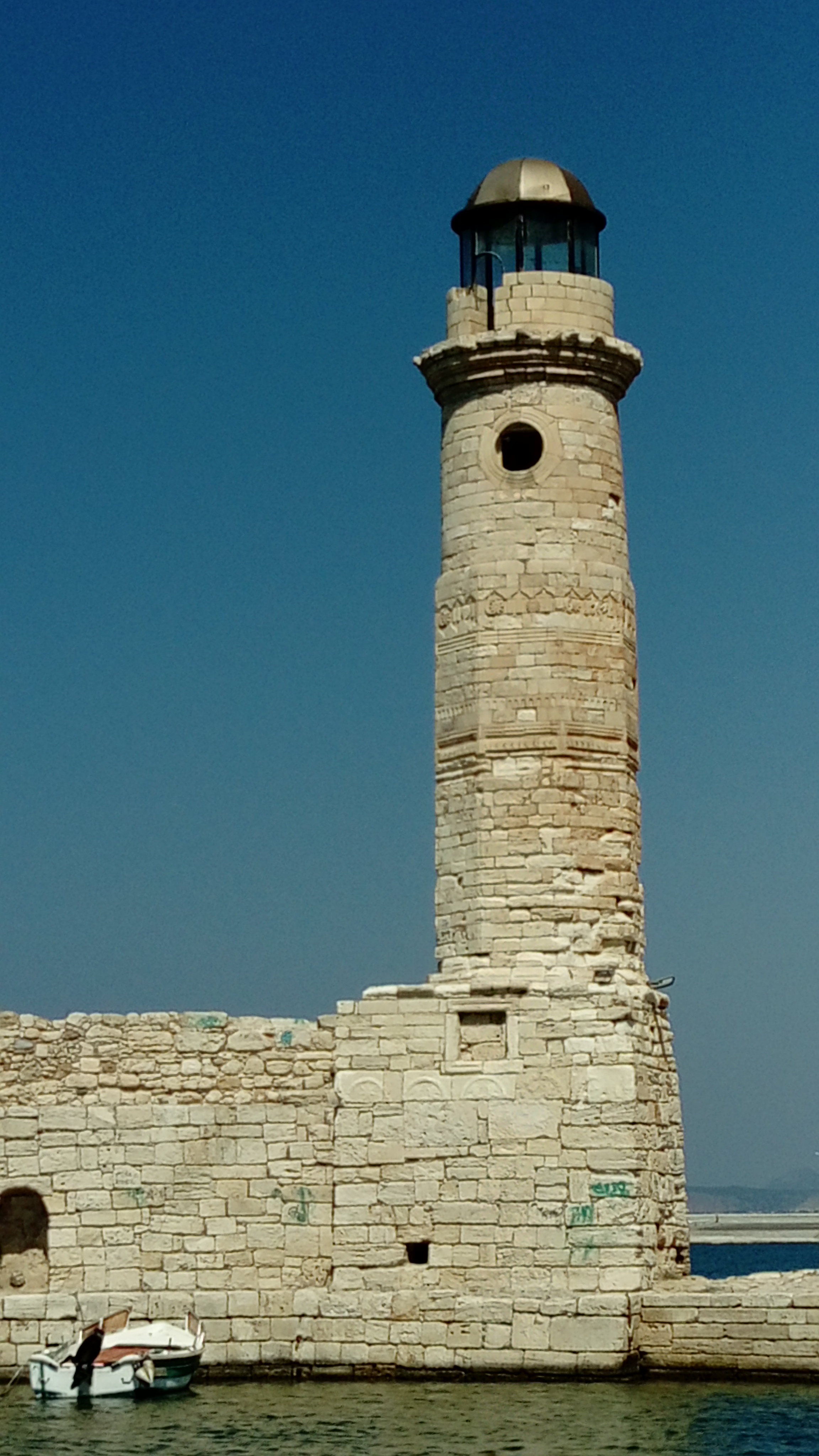 Picture of the old stone-built lighthouse of Rethymno in Crete, with a white small craft.